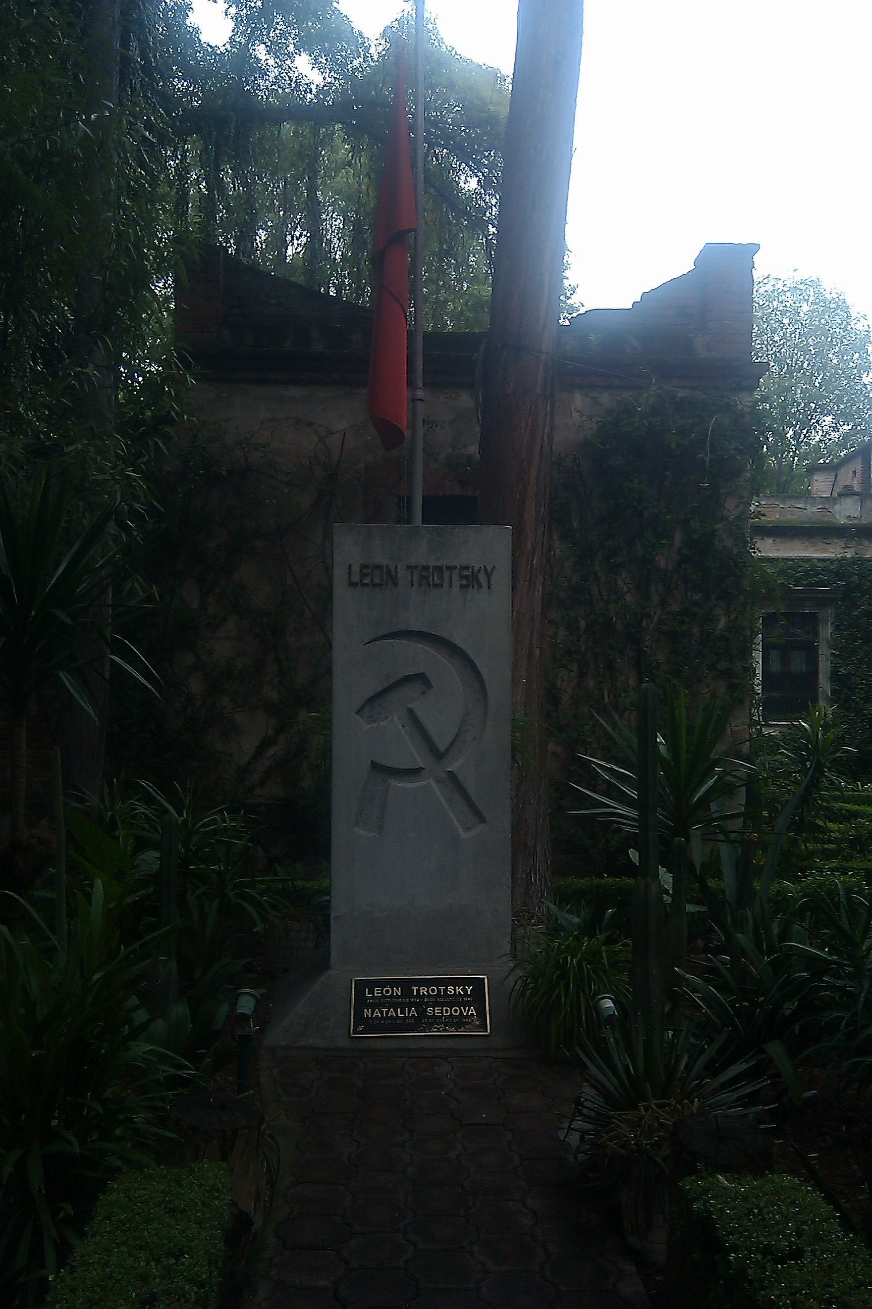 The Grave of Leon Trotsky in Coyoácan, Mexico City